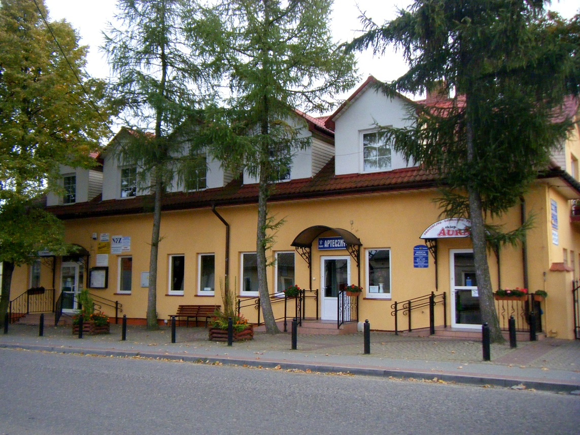 Health Center in Brdów (Poland)